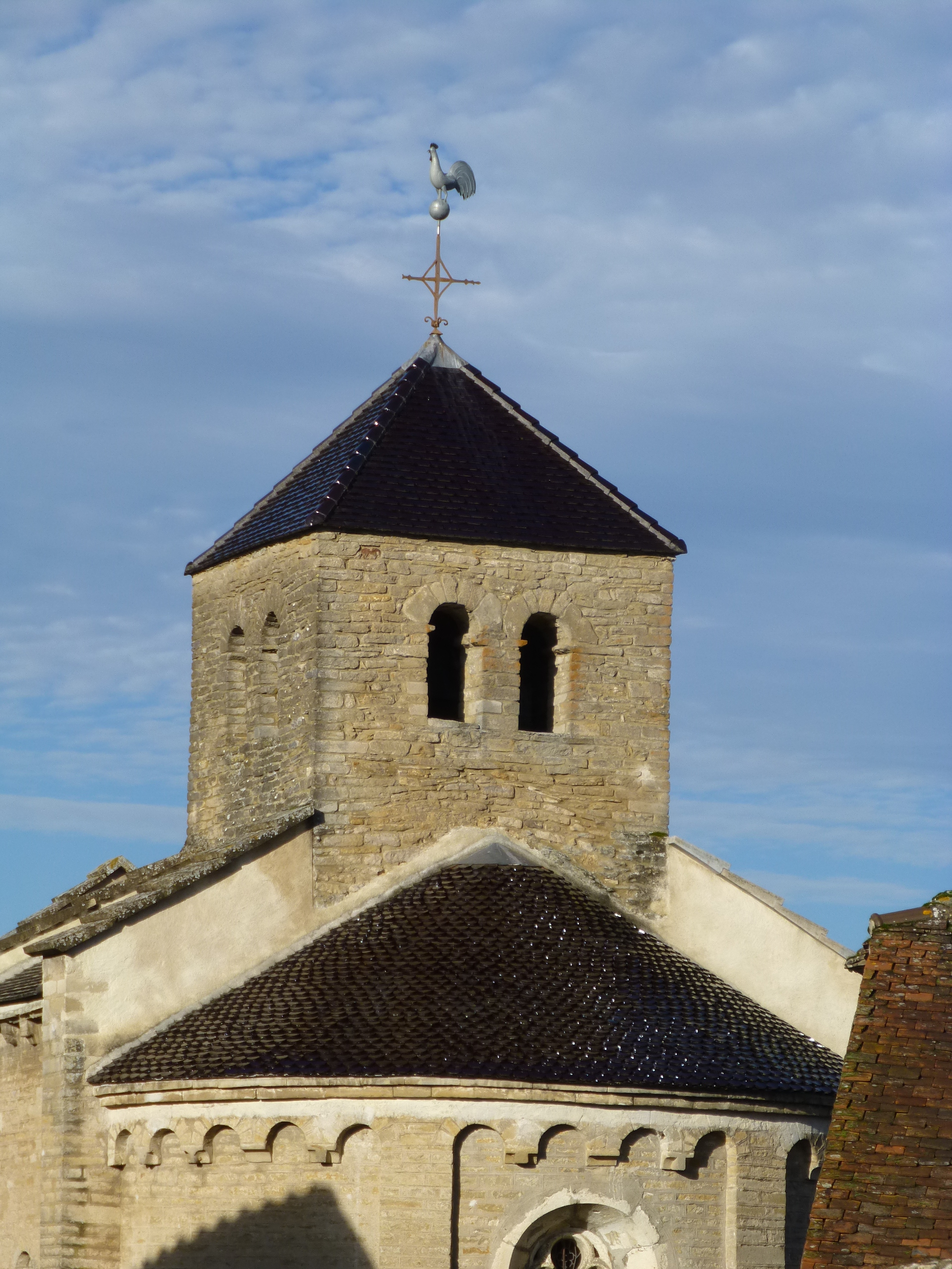 Church Tower Germagny (Saône et Loire)